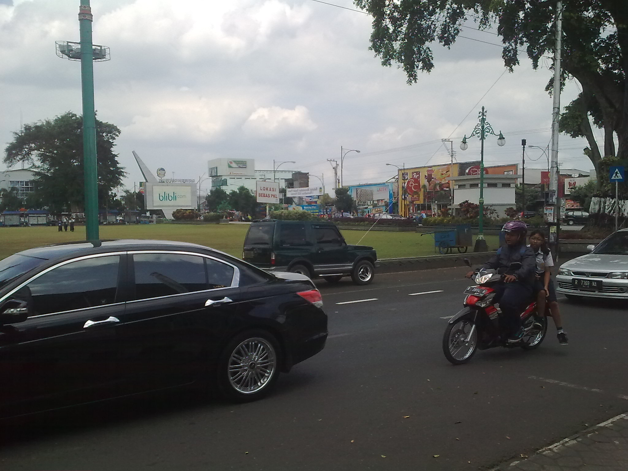 A corner of the Purwokerto city.